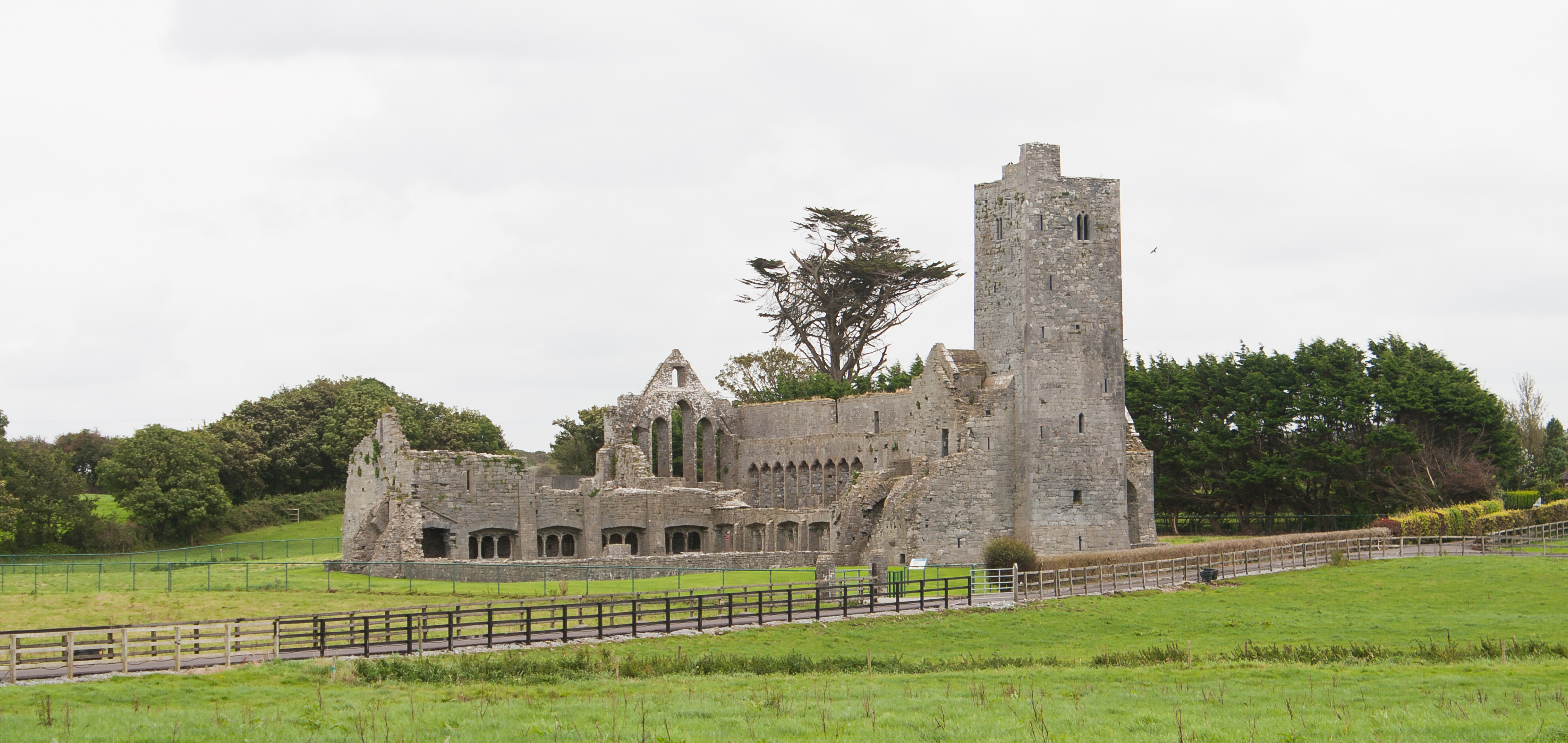 North-west view of Ardfert Friary.